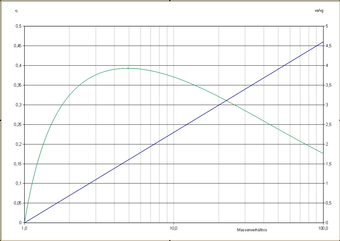 Diagram showing the velocity ratio (blue line) and the energy efficiency (green curve) as function of the mass ratio, in logarithmic scale, and highlighting the peak efficiency point